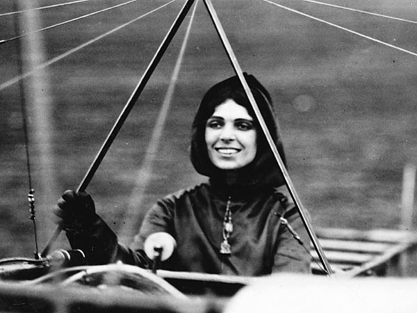 Harriet Quimby (1875-1912) in her Blériot monoplane.